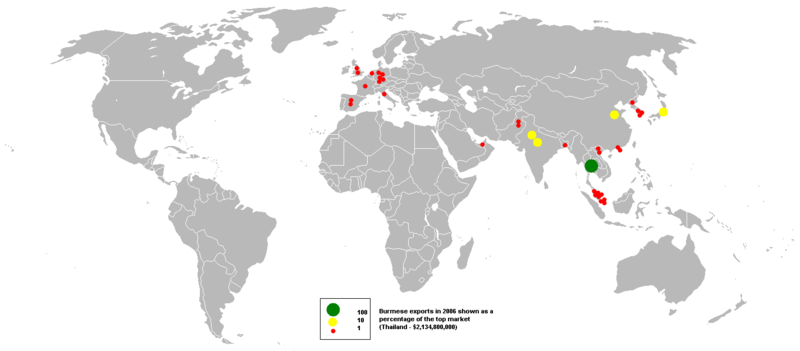 Burmese exports in 2006 shown as a percentage of their largest export market, Thailand (worth $2.134 trillion).